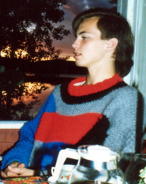 Hans M. Stefanson, (later) Montreal restaurant manager, as released by image owner FamSACPlace: Standers, Sjöbovägen 6242, Ludvika, Sweden.